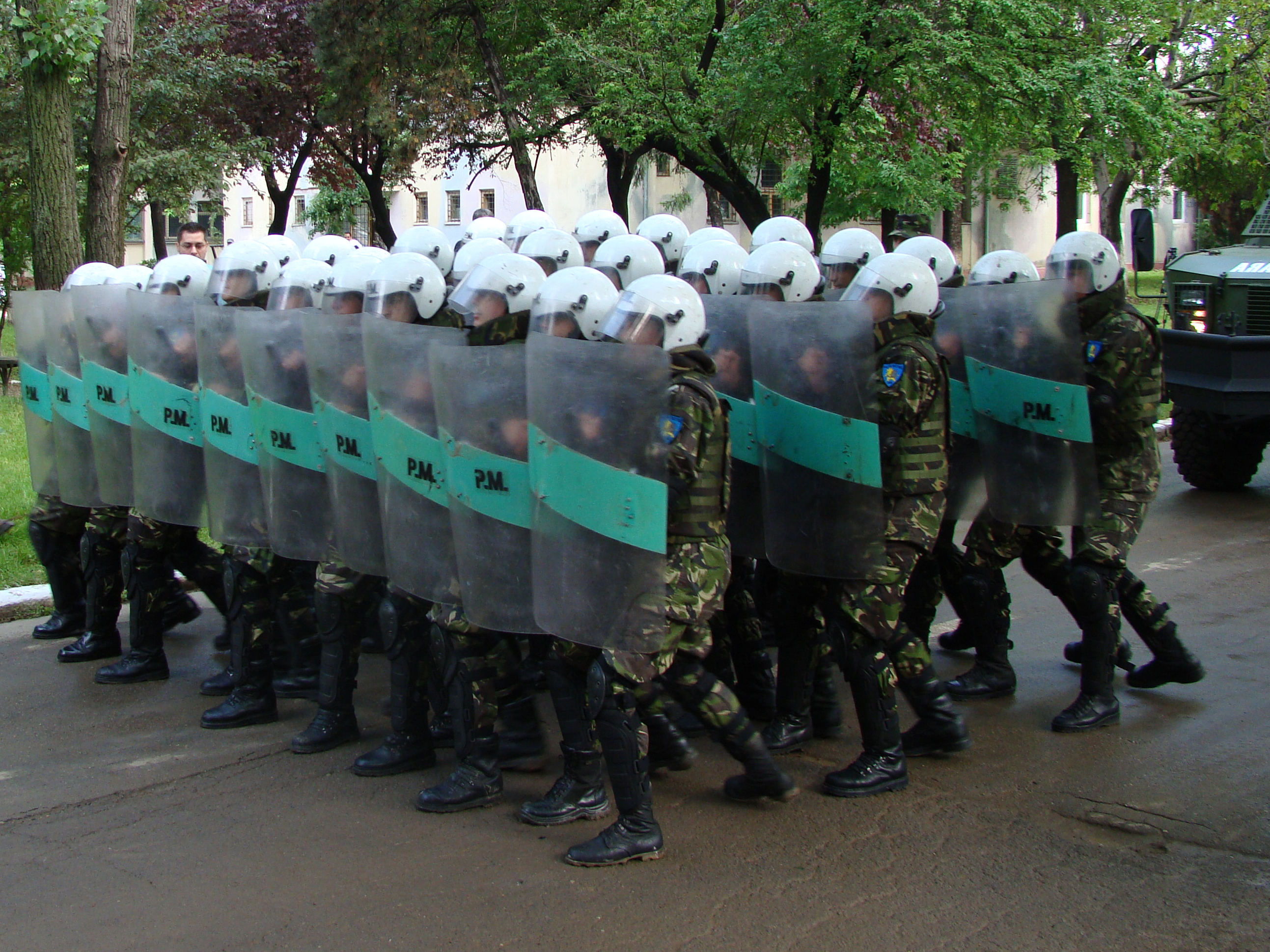 Military Police Day celebrated by the 265th Military Police Battalion of the Romanian Land Forces.